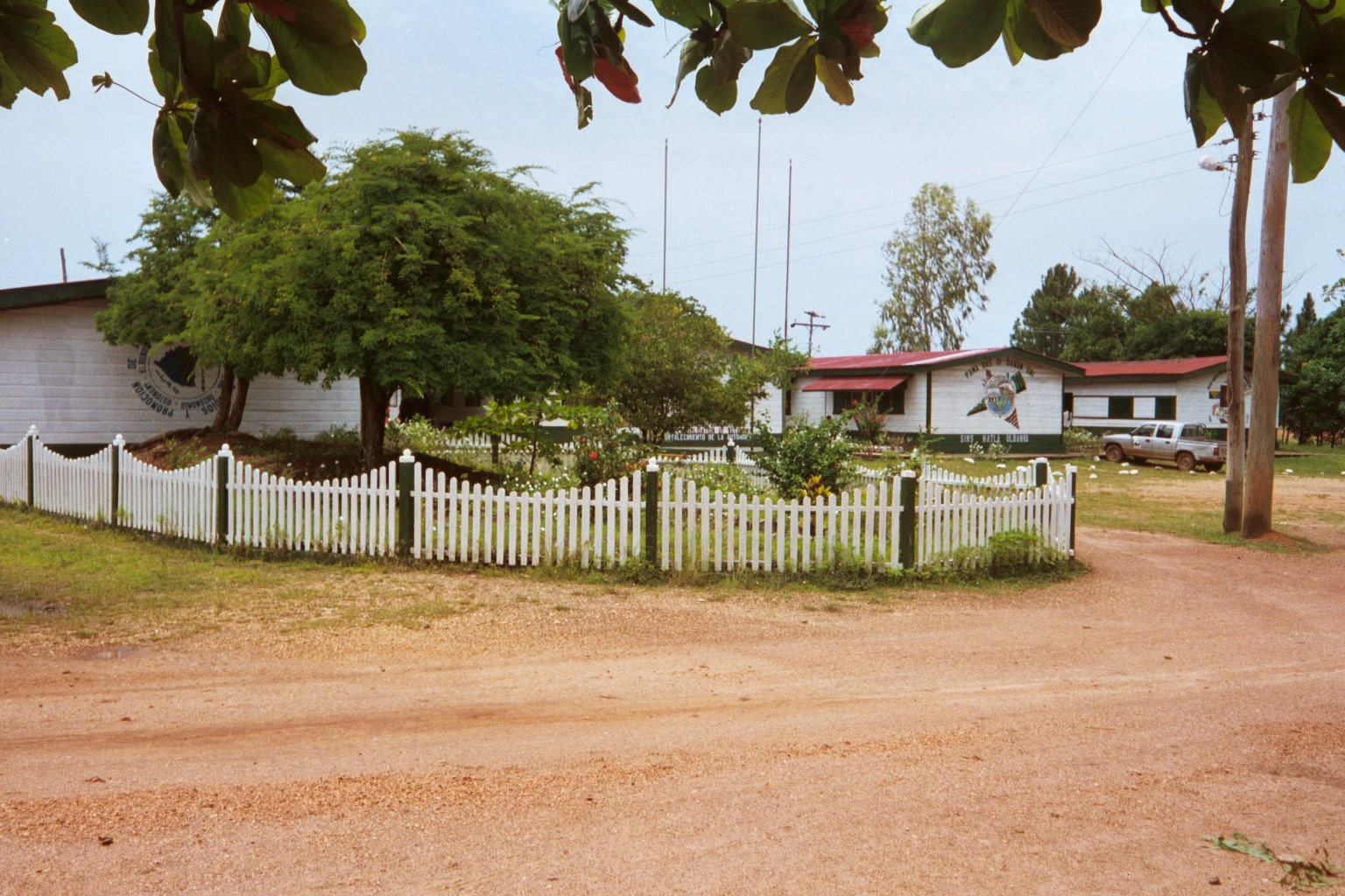 University of the Autonomous Regions of the Caribbean Coast of Nicaragua (URACCAN) in Bilwi, Nicaragua.